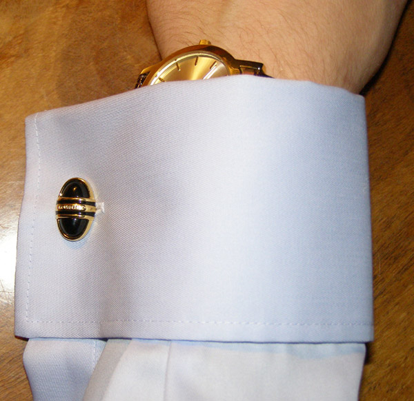 Double cuff with Montblanc cufflink